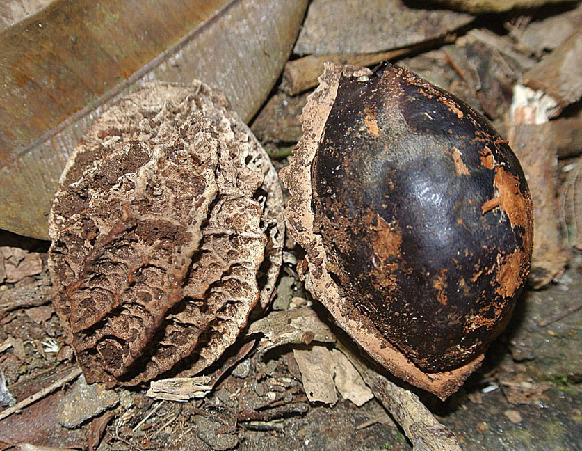 The seed and pod of this species, also known as C. costaricensis. Photo from El Dorado Reserve, northeastern Colombia.